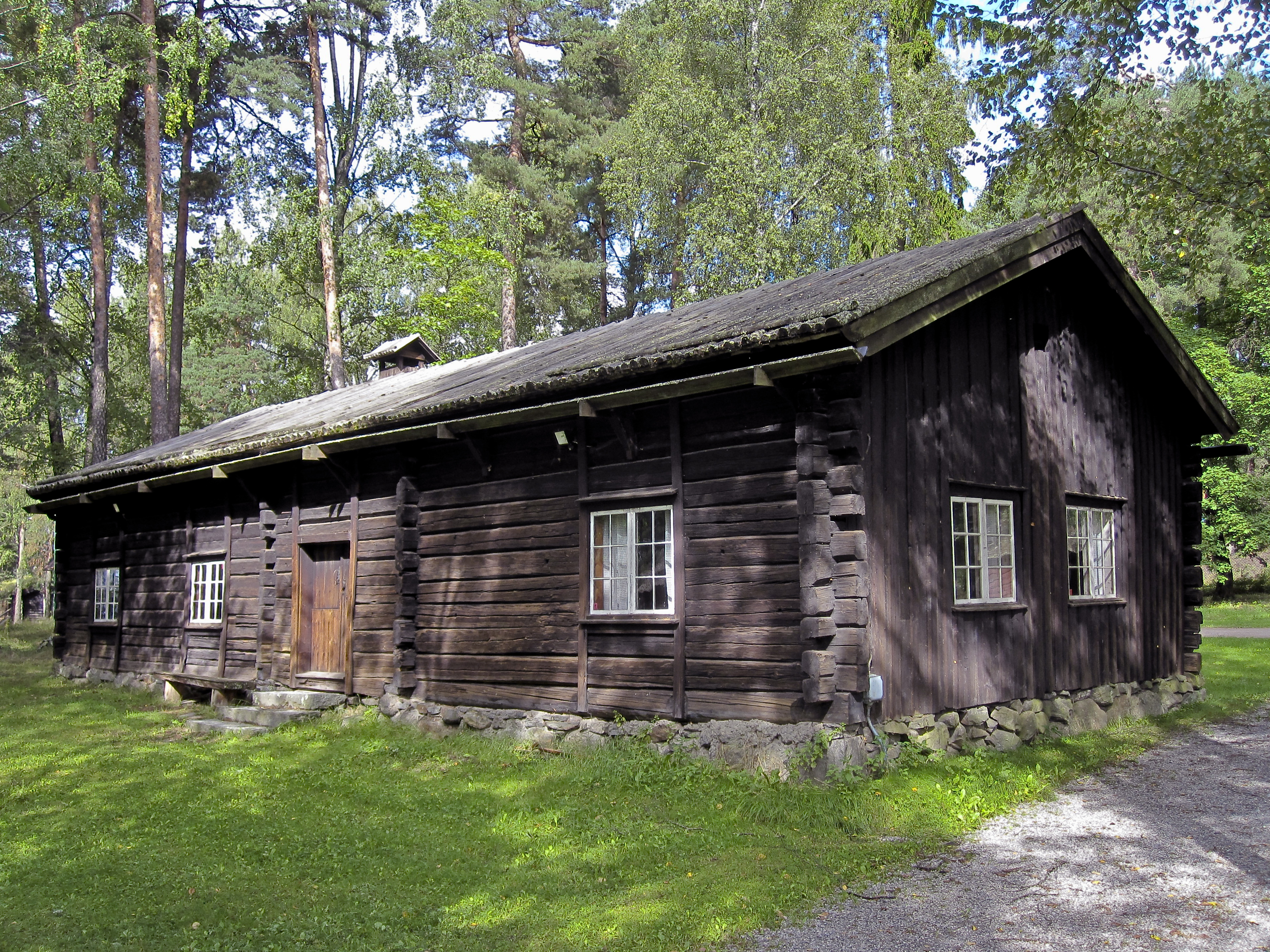 "Rökstugan", Sågudden open air museum, Arvika, Sweden. Rökstugan, 1700-1800-talet.